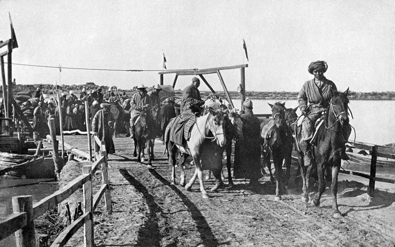 Сырдарья. Паромная переправа у Чиназа 5